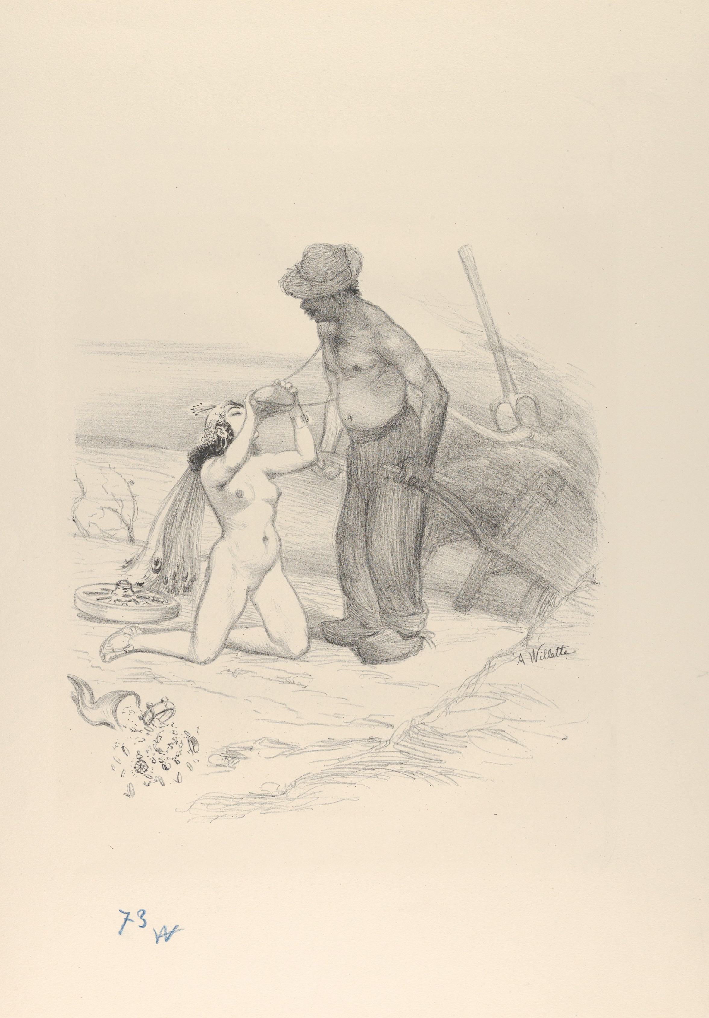 Print; Prints